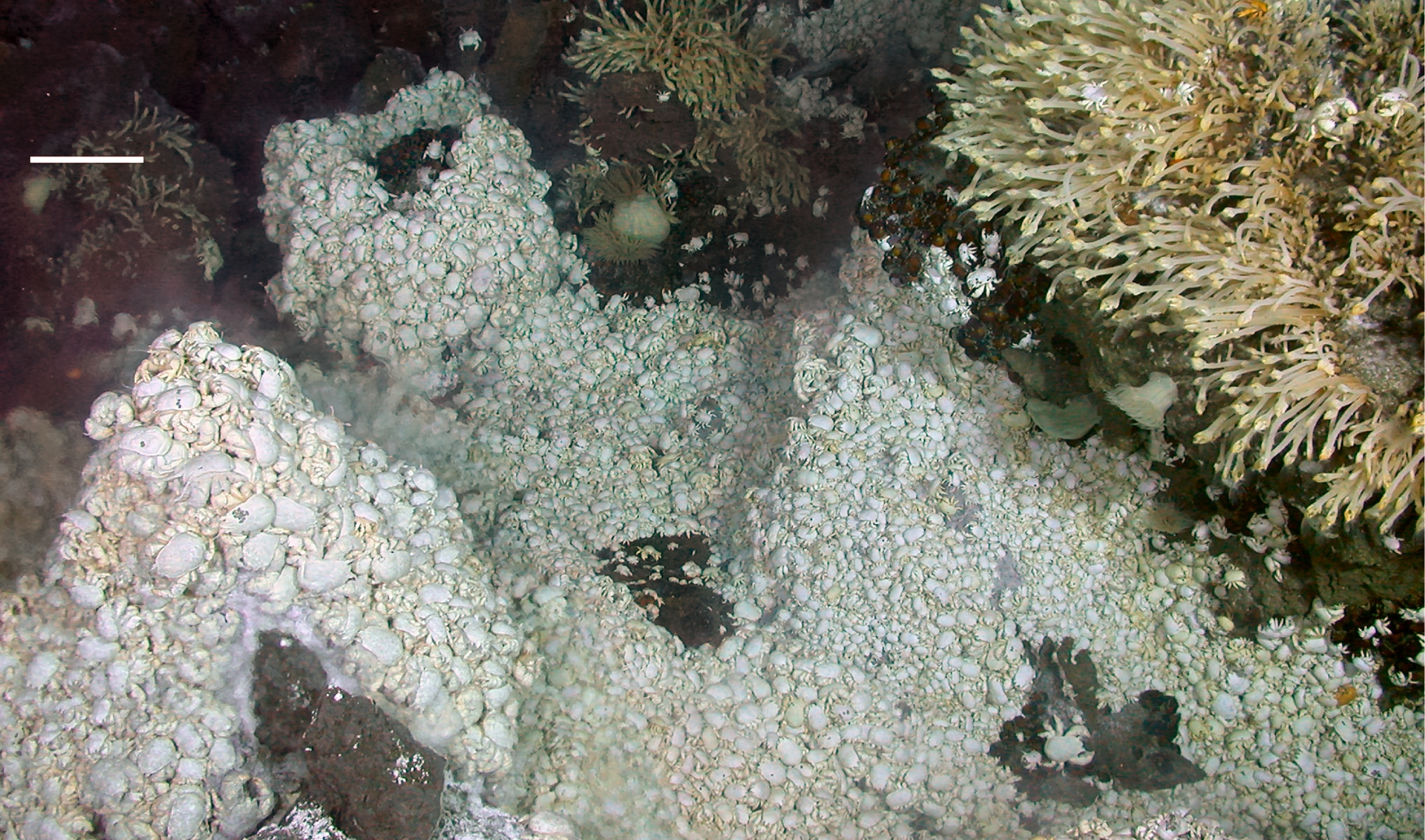 Dense mass of the anomuran crab Kiwa n. sp. at E9 with the stalked barnacle cf. Vulcanolepas attached to nearby chimney (Dive 138, 2,397 m depth). Scale bar: 10 cm for foreground.